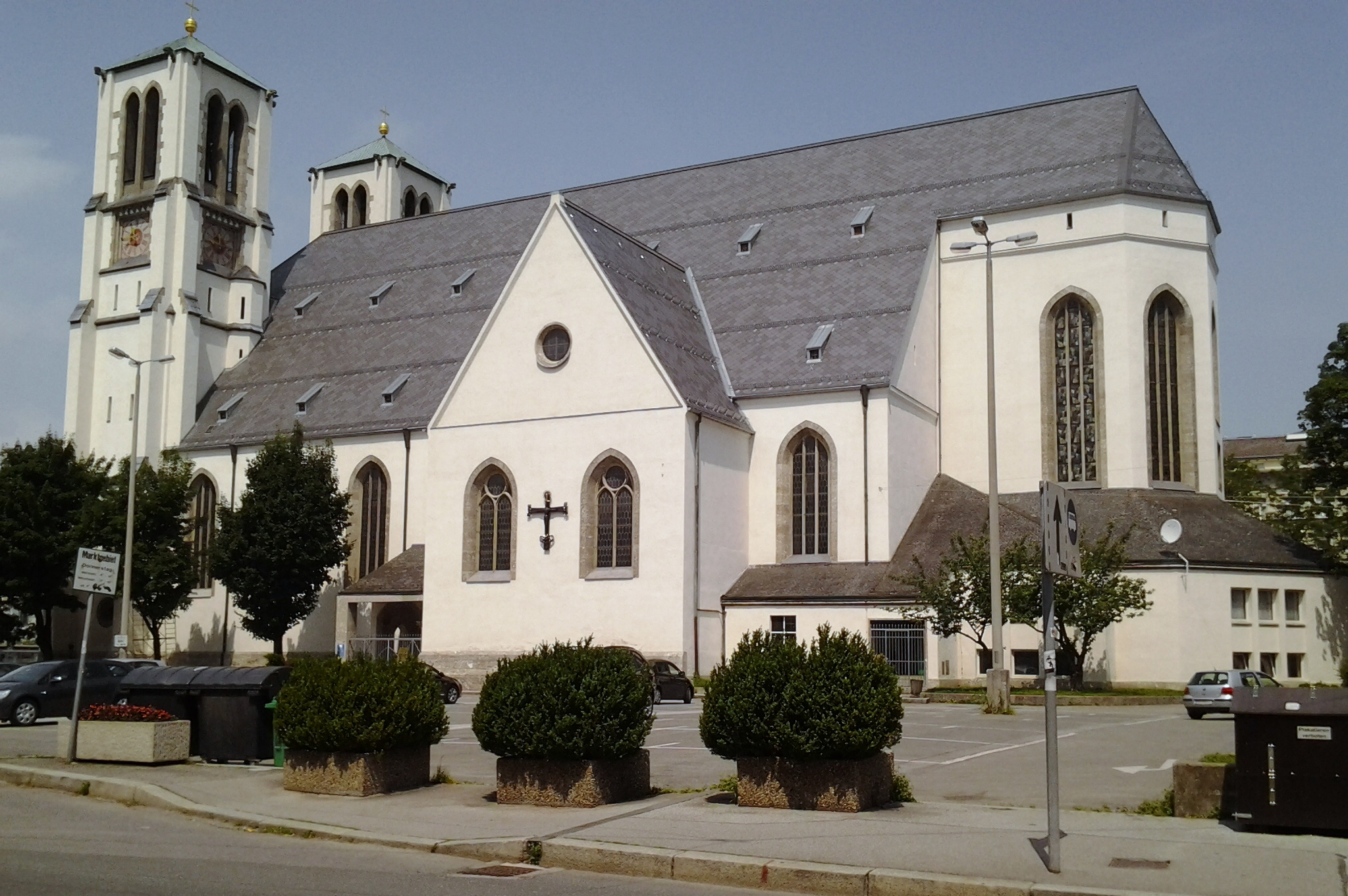 St. Andrew church, Salzburg, Austria